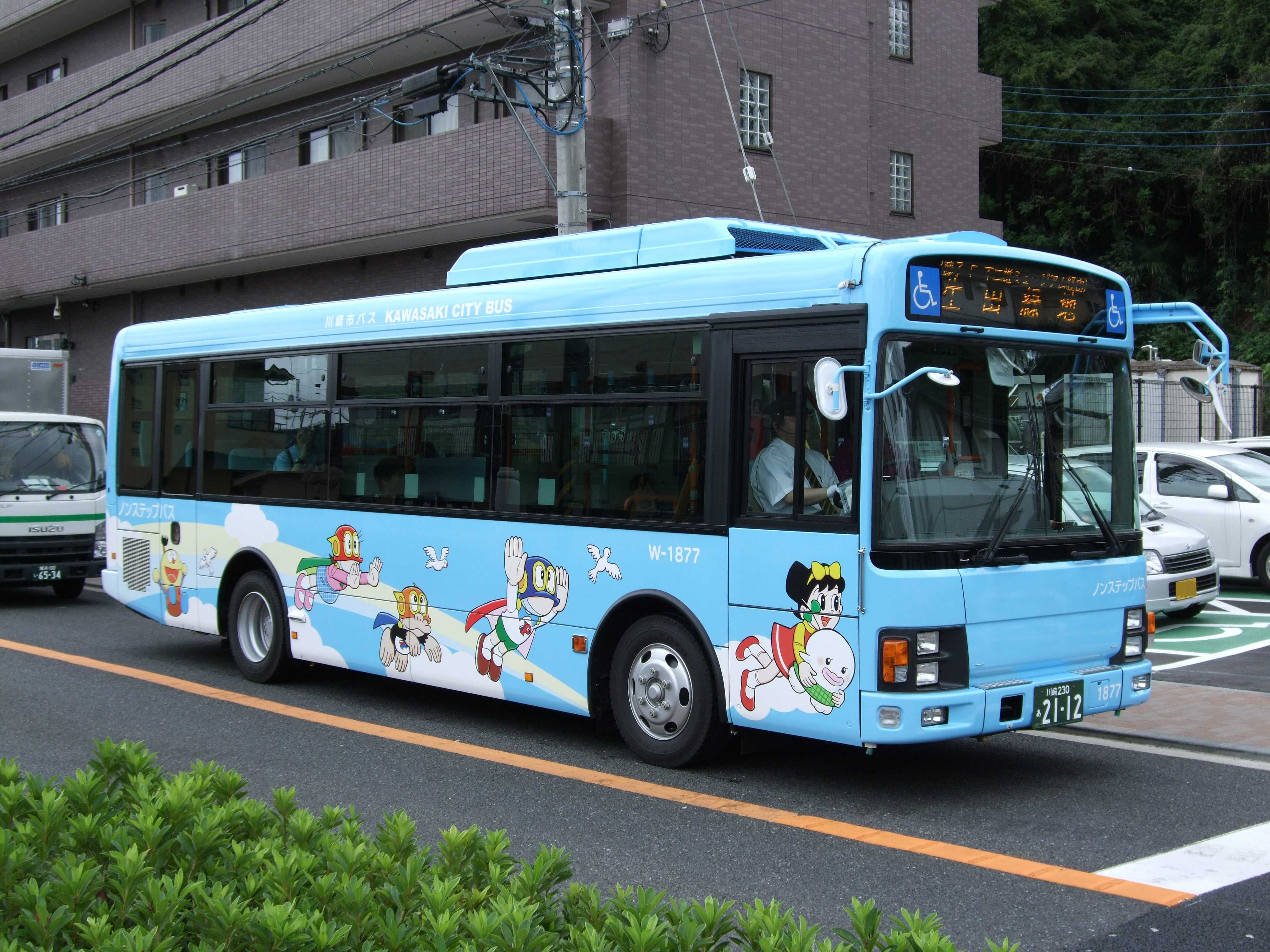 Kawasaki city bus Fujiko.F.Fujio Musium shuttle bus